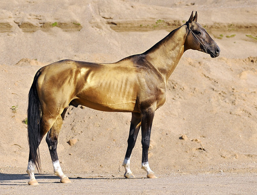 Akhal-teke stallion Dagat-Geli, g.buckskin, (Gaigysyz-Dargi)